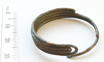 bronze hair ring (Early Bronze Age), funerary assemblage